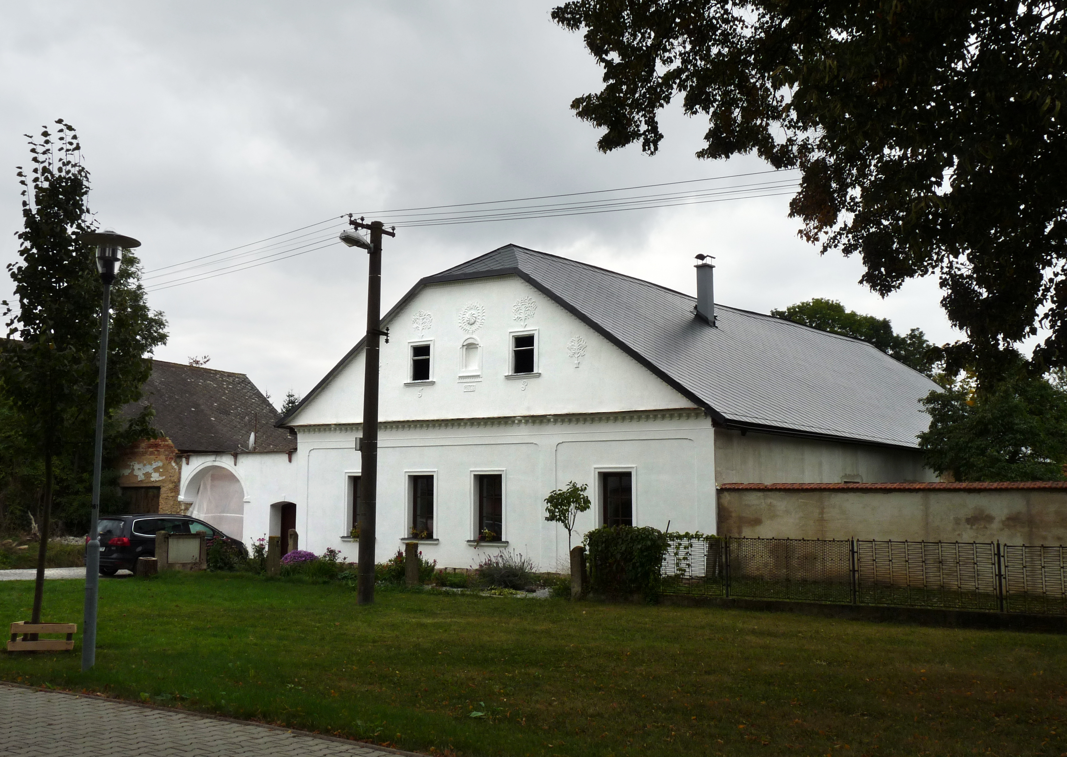 House No 6 in the village of Pístov, part of the town of Jihlava, Jihlava District, Vysočina Region, Czech Republic.